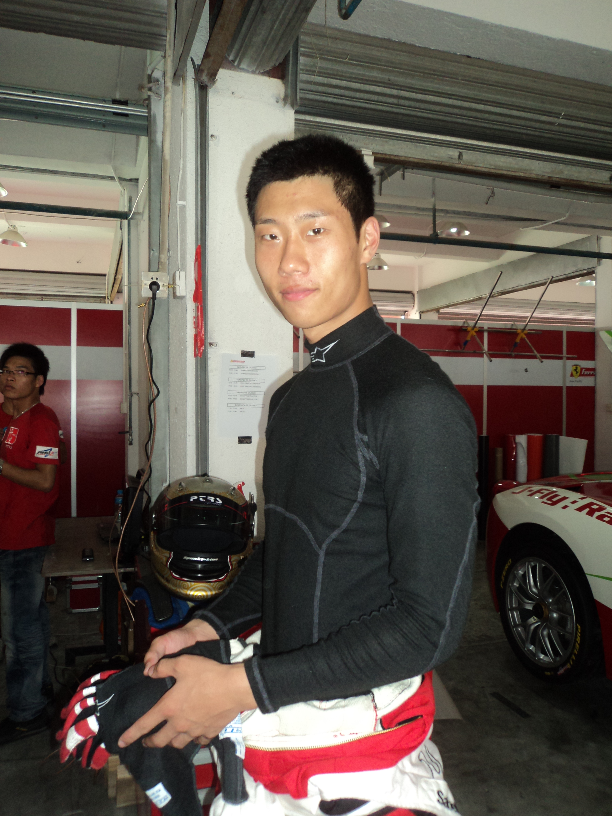 Zhang Shan-Qi prepares to race in Ferrari Challenge APAC at Zhuhai International Circuit